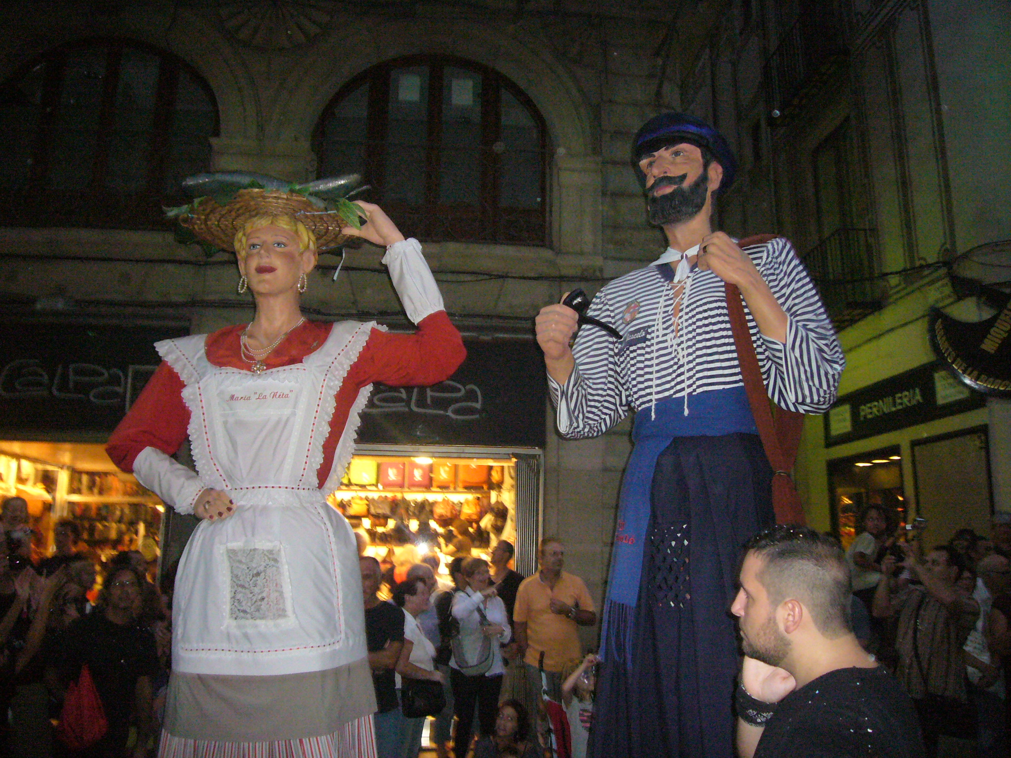 La Mercè 2012 in Barcelona.